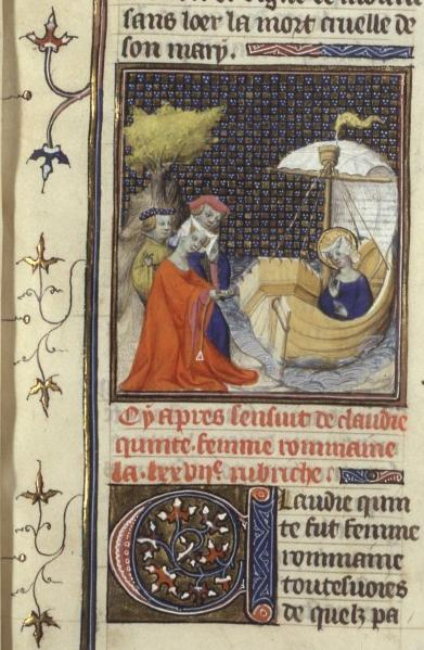 Claudia Quinta, represented in manuscript B.N.F. Richelieu Manuscrits Français 598, f. 115 (15th century, anonymous French translation of Boccaccio, De mulieribus claris)